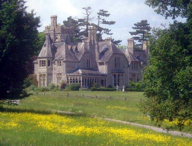 Foscombe House View north-west from the bridleway. Thomas Fulljames (1808-74), was a nephew of the Gloucester land surveyor of the same name. A trained architect, he was well-connected with the local gentry and clergy. He established a practice in Gloucester in 1830, was appointed County Surveyor in 1831 and Diocesan Surveyor in 1832. He later formed Fulljames & Waller in partnership with one of his former pupils and the firm worked for many years on public buildings, church buildings and later on private houses. In 1866, they jointly designed Foscombe House as a retirement home for Fulljames. A superb example of the Victorian Gothic Revival style applied to a private house.